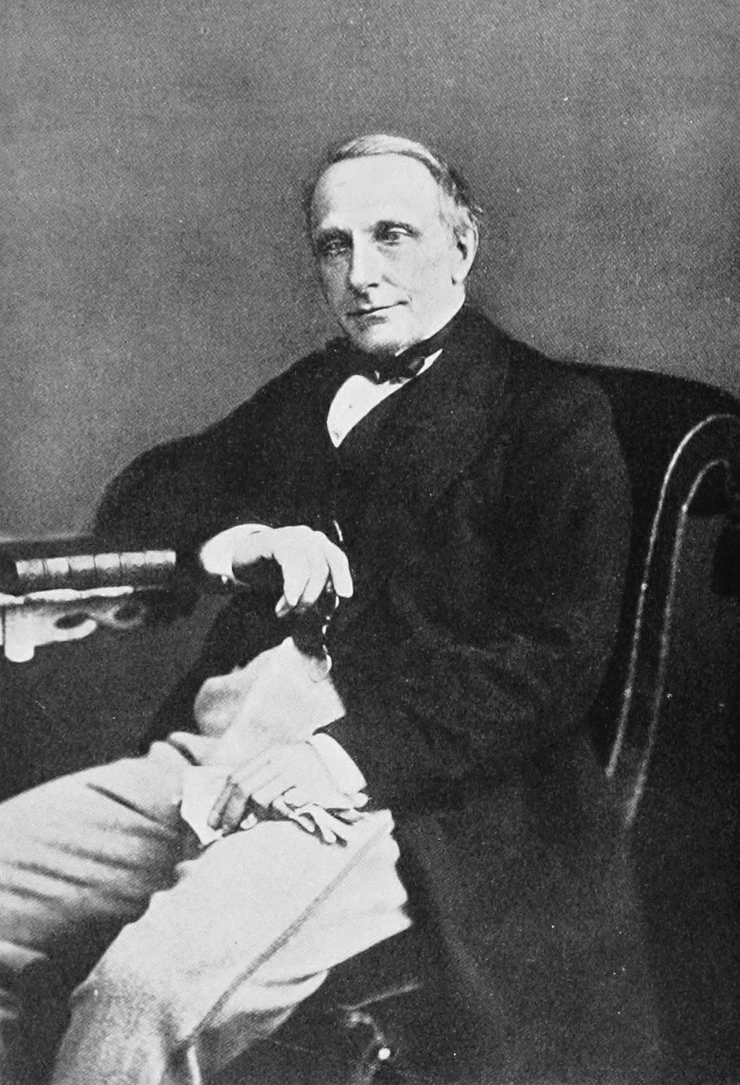 Alexander William Kinglake